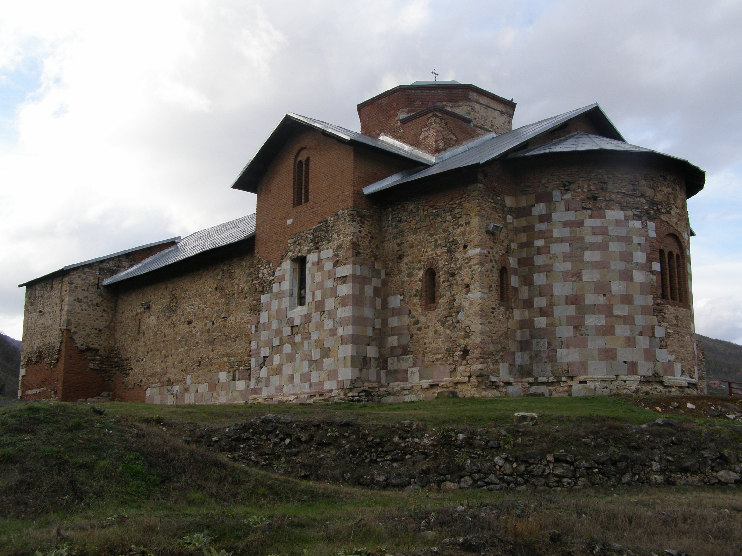 Church of the Banjska monastery, Kosovo